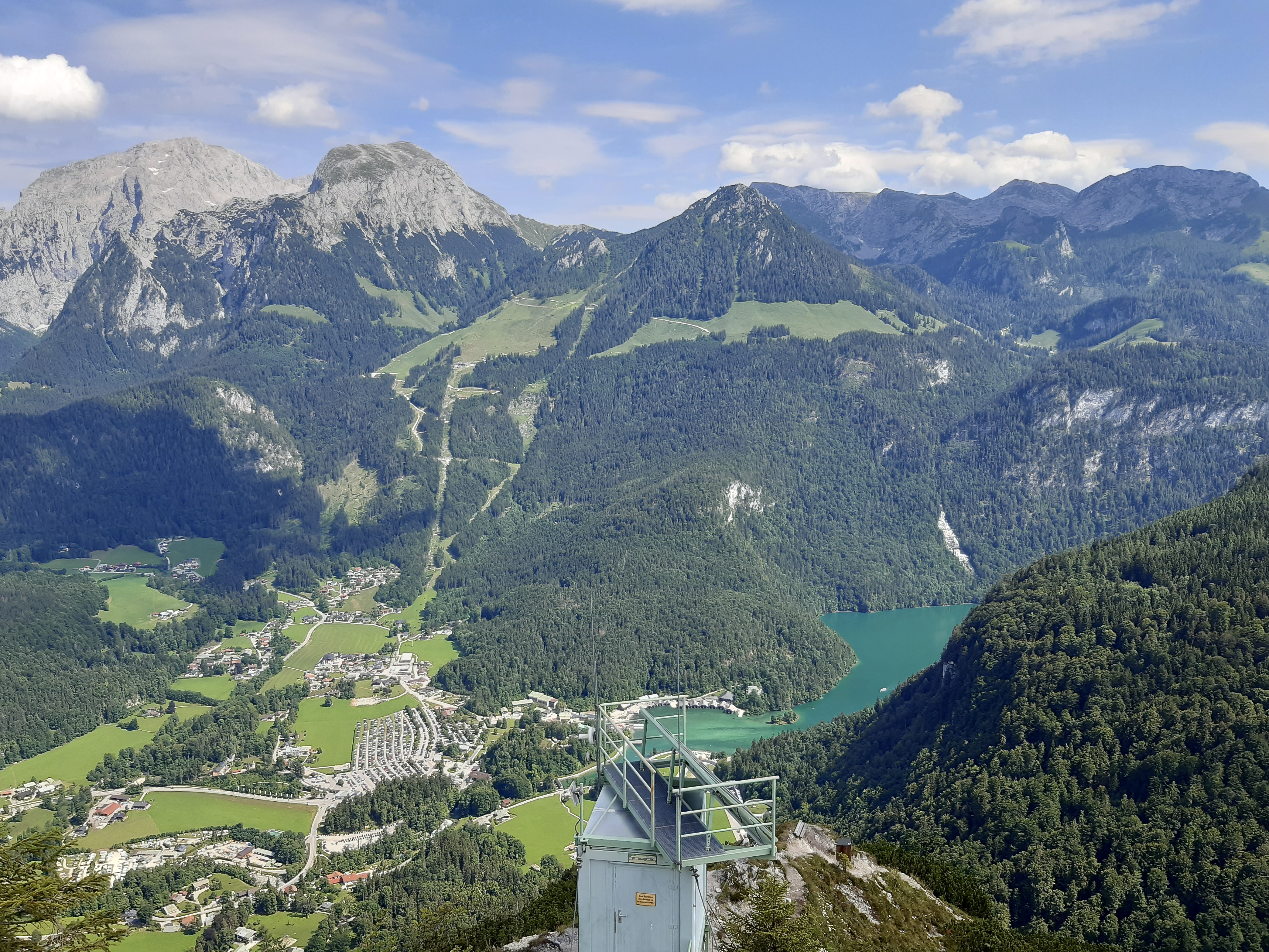 View from Mt. Gruenstein, a peak in the Watzmann Massif, to the National Park of Berchtesgaden with the Koenigssee lake. Picture taken from above the exit point of the "Isidor" via ferrata.